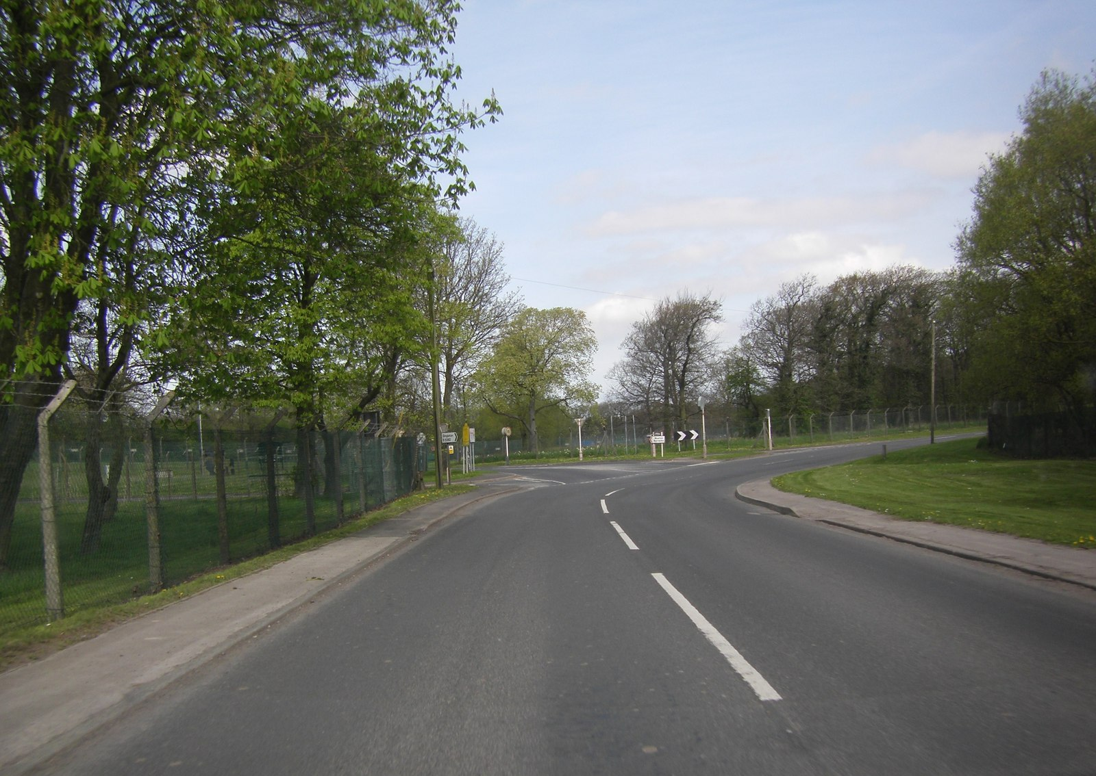 Singleton Road by Weeton Camp